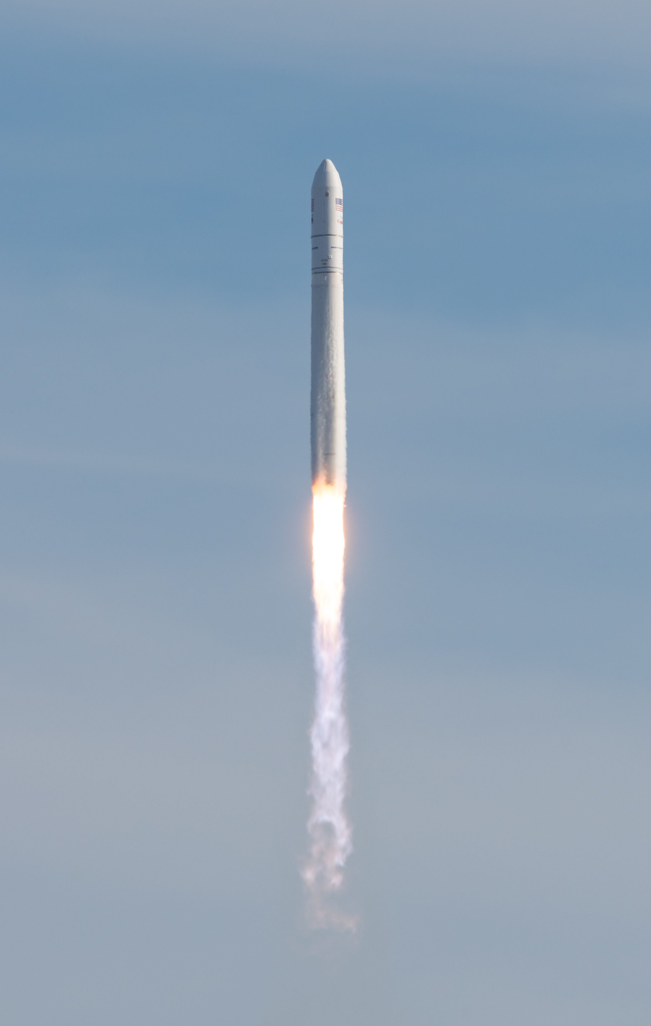 The Northrop Grumman Antares rocket, with Cygnus resupply spacecraft onboard, launches from Pad-0A, Saturday, Feb. 15, 2020 at NASA's Wallops Flight Facility in Virginia. Northrop Grumman's 13th contracted cargo resupply mission for NASA to the International Space Station will deliver more than 7,500 pounds of science and research, crew supplies and vehicle hardware to the orbital laboratory and its crew. Photo Credit: (NASA/Aubrey Gemignani)